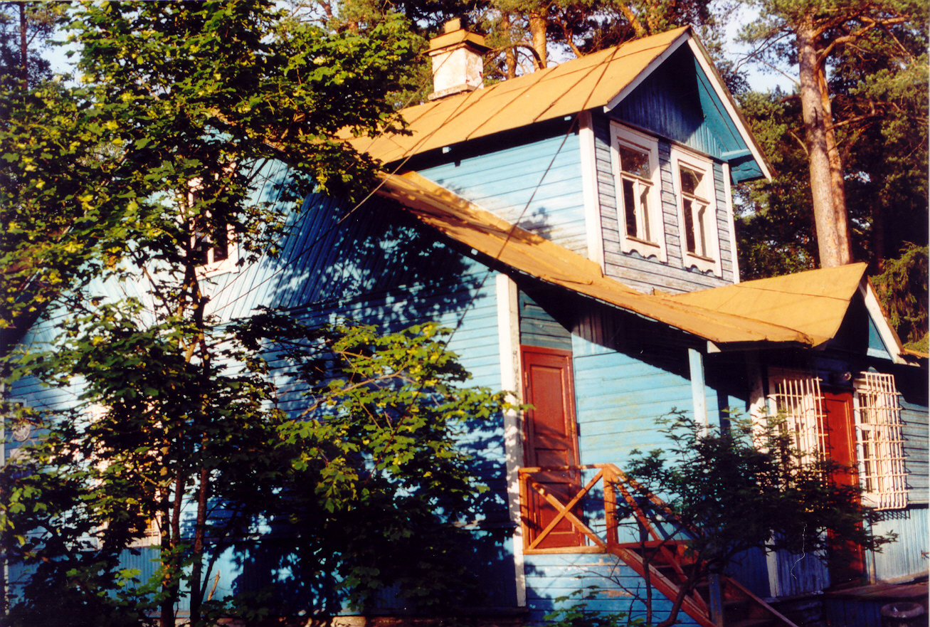 Saint Petersburg,Russia-impressions from its Datscha land